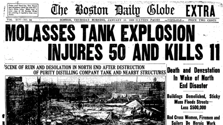 Boston Daily Globe front page mentioning the Great Molasses Flood